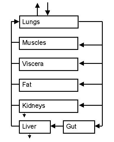 Symbolic representation of a 7-compartment physiologically based pharmacokinetic model.